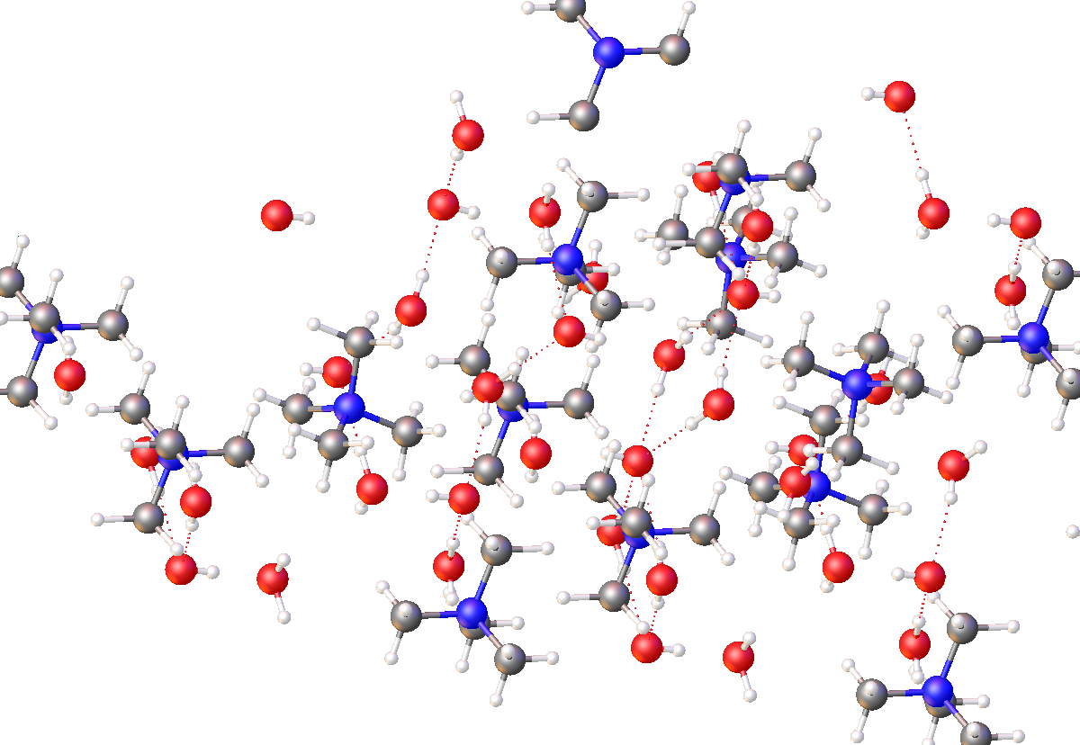 structure of Me4NOH monohydrate